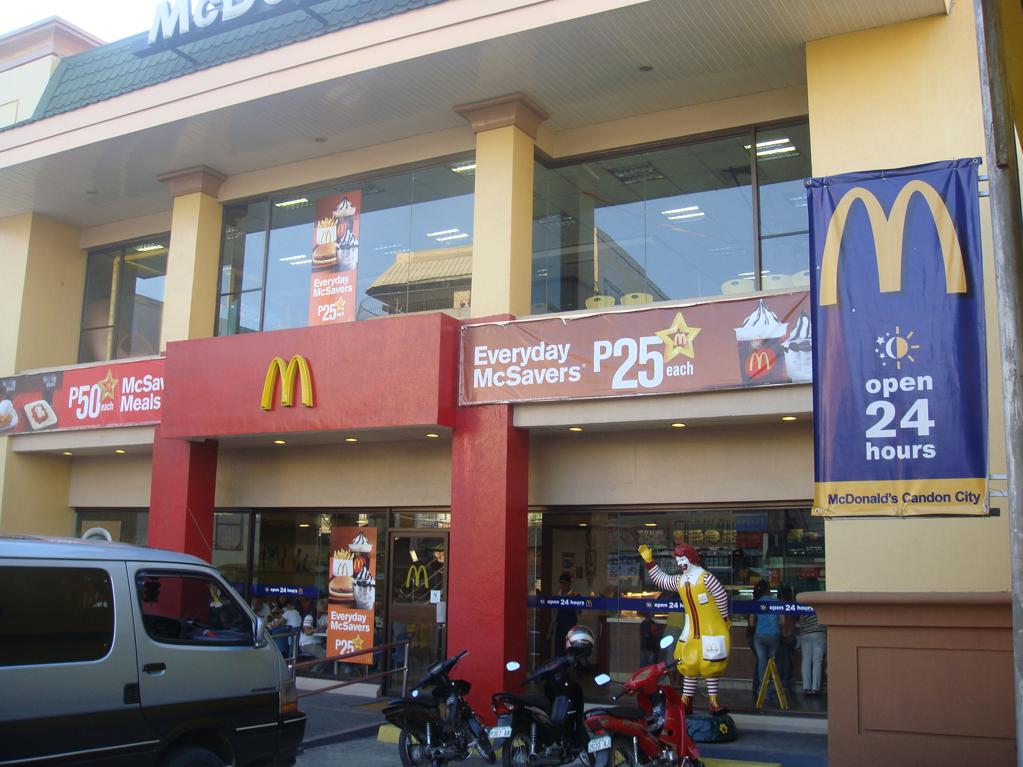 MCDONALD'S CANDON CITY